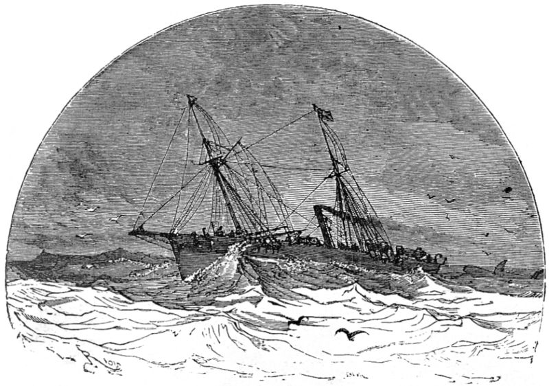 An ilustration from the novel "In Search of the Castaways; or Captain Grant's Children" by Jules Verne drawn by Édouard Riou.